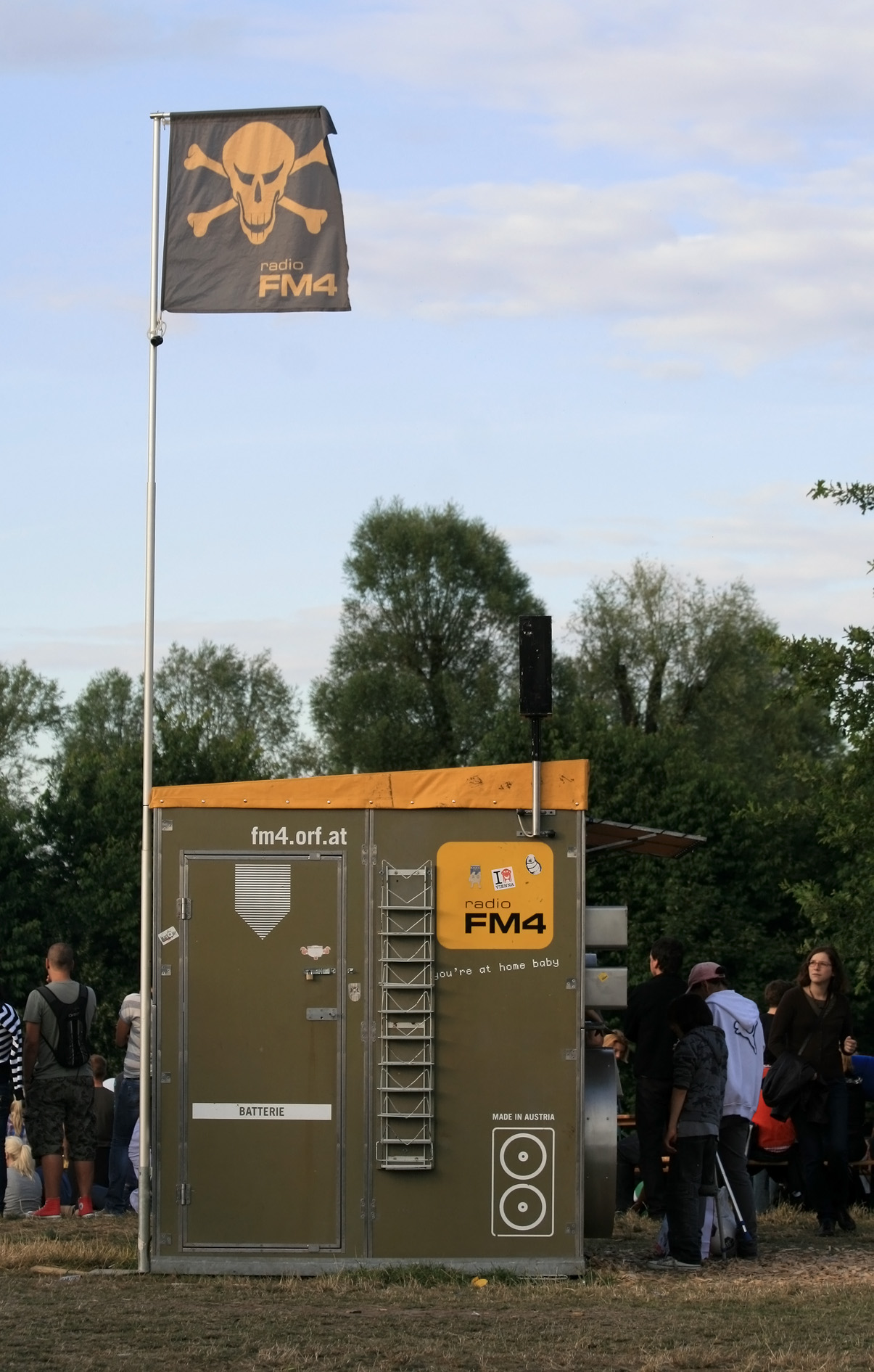 Booth of radio station FM4 at the Donauinselfest 2011 in Vienna